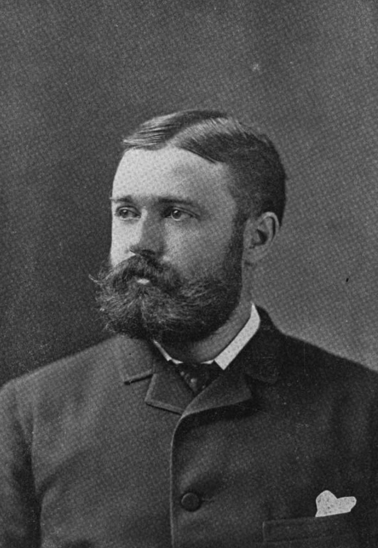 Victor Lawson